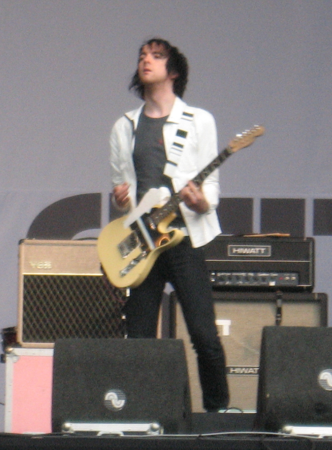 Air Traffic, Tom Pritchard, Parkpop 2007, Den Haag